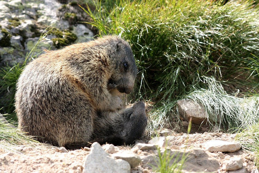 Two young M.marmota latirostris on Volovec Mt., Tatra